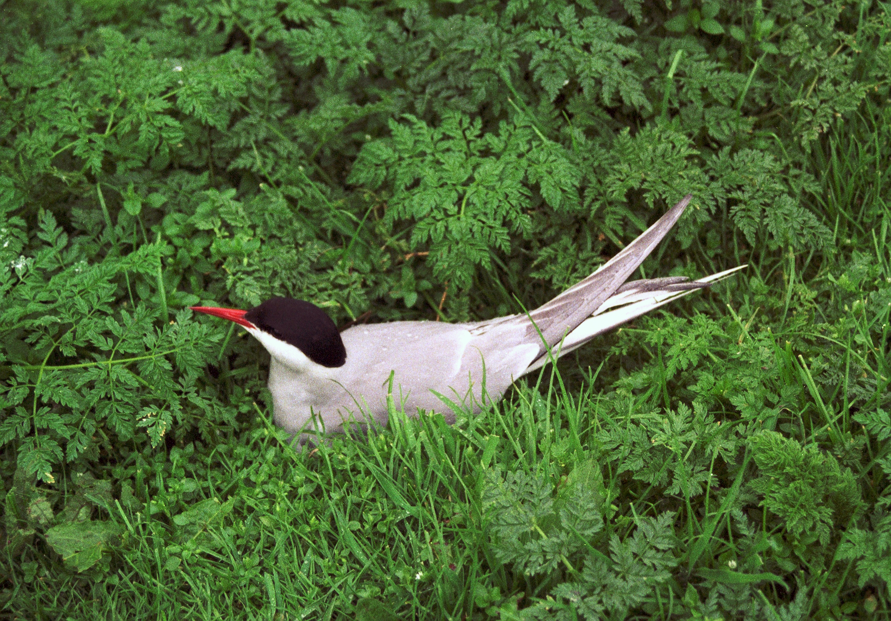 Arctic Tern Sterna paradisaea at nest on Inner Farne, Farne Islands, Northumberland.